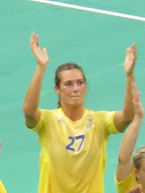 Swedish handball player Sabina Jacobsen, during the Olympic Games, Rio 2016.